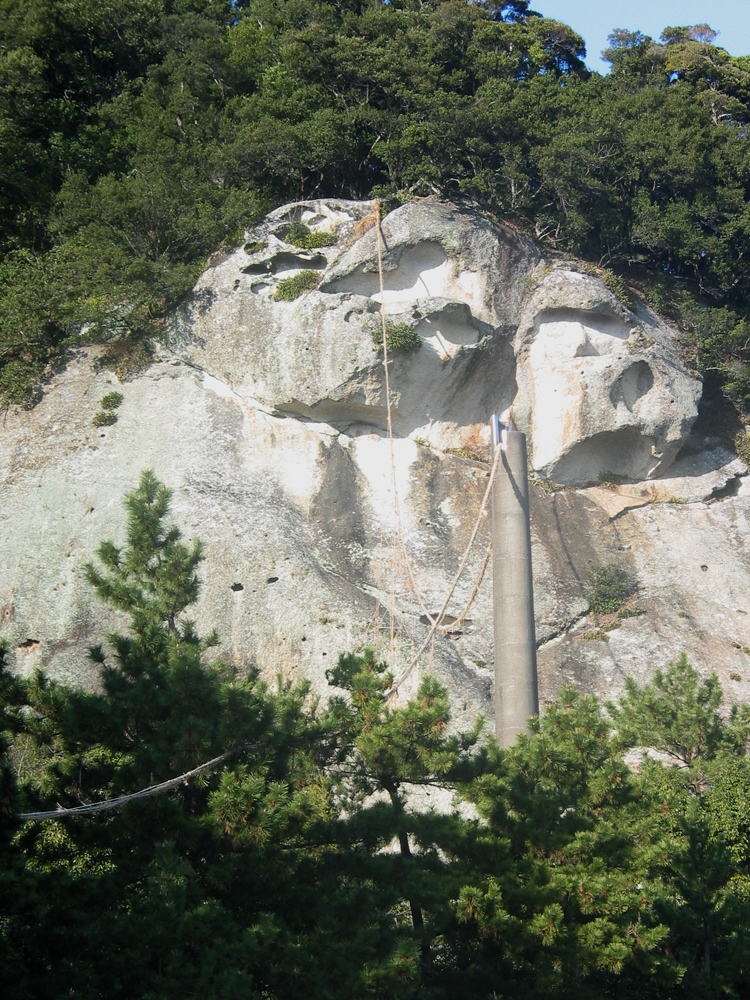 Rope join the huge rock to the pine tree at the Hananoiwaya-jinja(Sacred Sites and Pilgrimage Routes in the Kii Mountain Range) I took this image. 世界遺産紀伊山地の霊場と参詣道に登録されている花窟神社の神体の巨岩から松の神木に渡された綱 三重県熊野市有馬町で撮影。